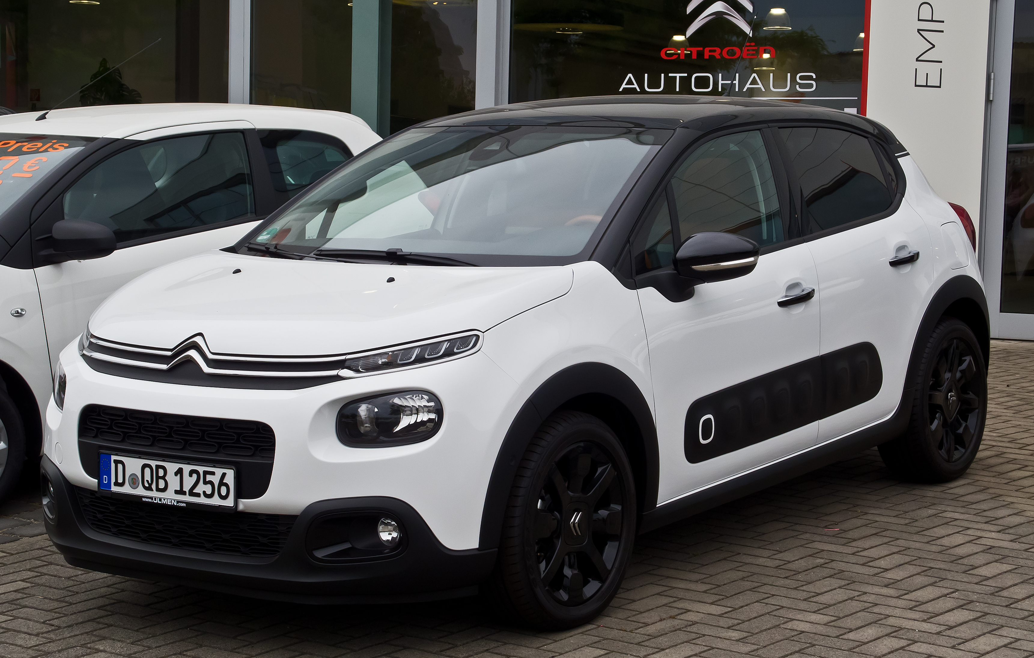 Citroën C3 BlueHDi 100 Shine (III)